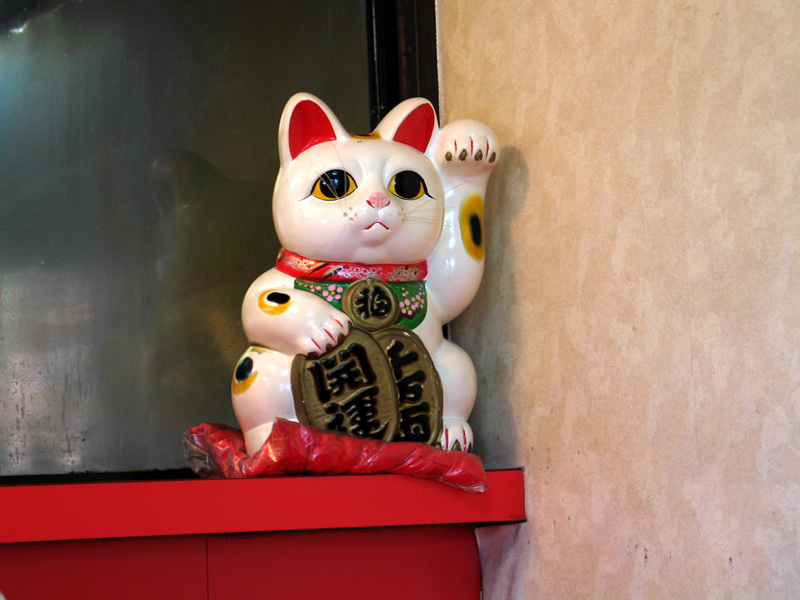 Sitting pretty on the counter at Hyaku-ban. (Manekineko)